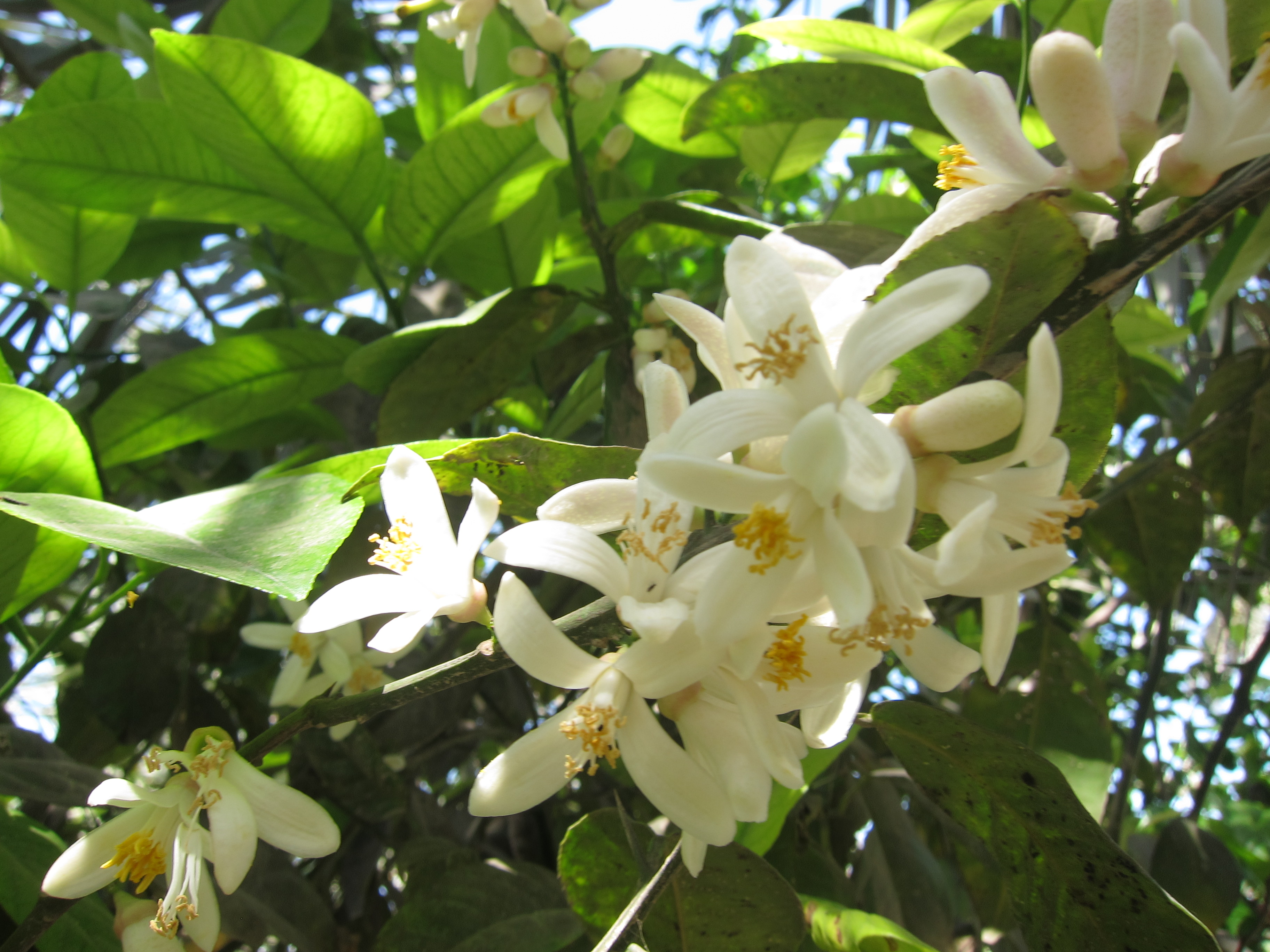 Citrus വടുകപ്പുളി നാരകം, കൈപ്പൻ നാരകം, കറി നാരകം, കടുകപ്പുളി നാരകം വടുകപുളി നാരങ്ങ, കറിനാരങ്ങ, കടുകപുളി നാരങ്ങ